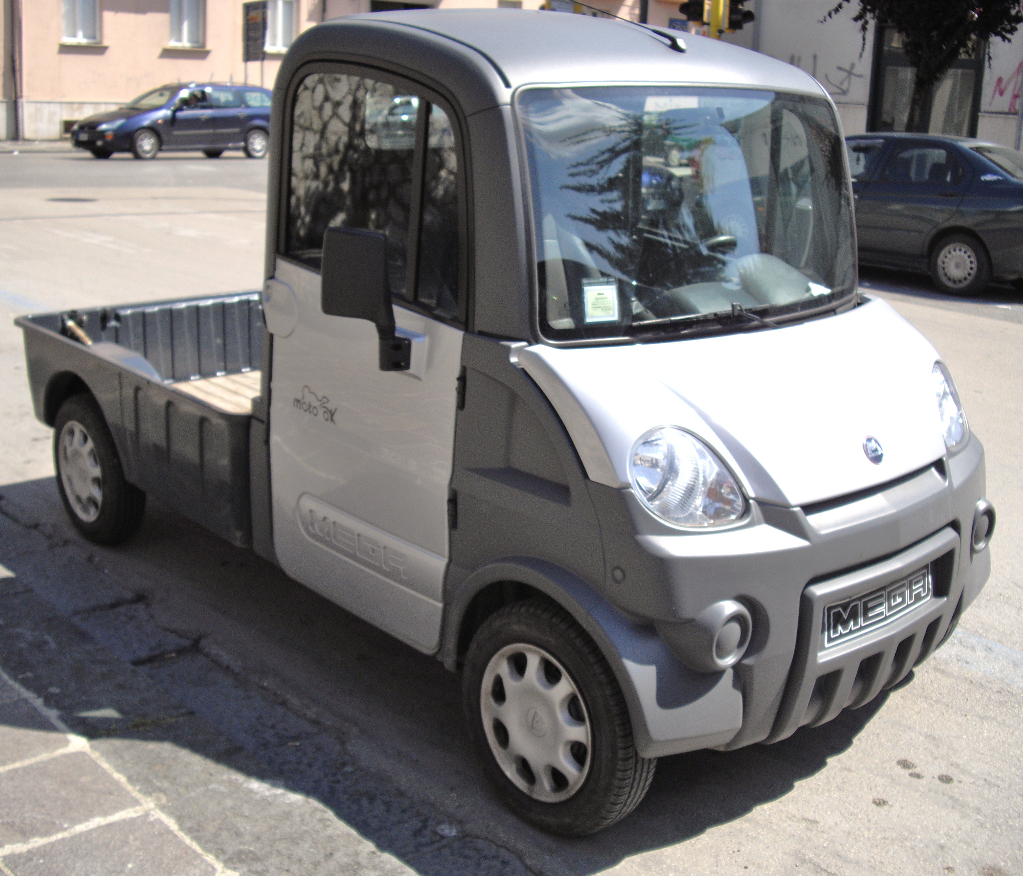 Aixam Mega pickup front